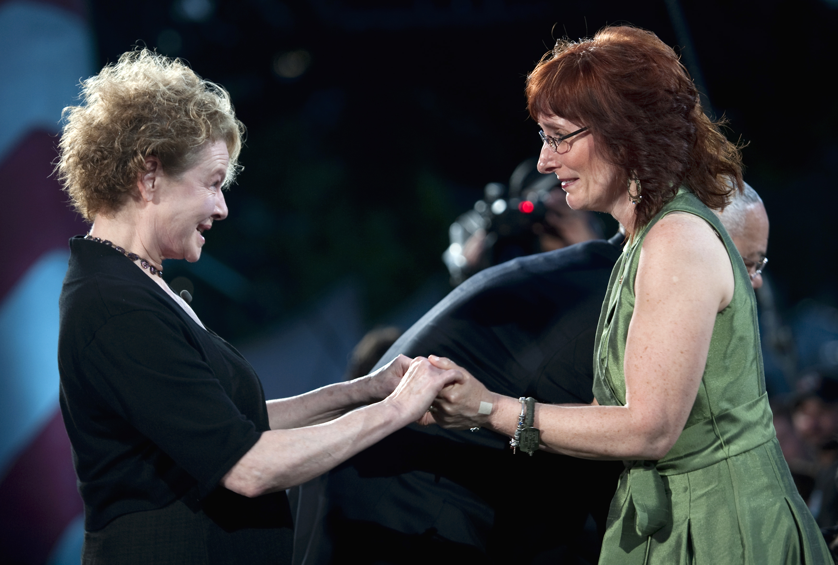 Actress Dianne Wiest greets Leesa Phillipon after telling the story of the loss of Phillipon's son, Marine Lance Cpl. Lawrence Phillipon in Iraq at the 2011 National Memorial Day Concert at the U.S. Capitol in Washington, D.C., May 29, 2011.